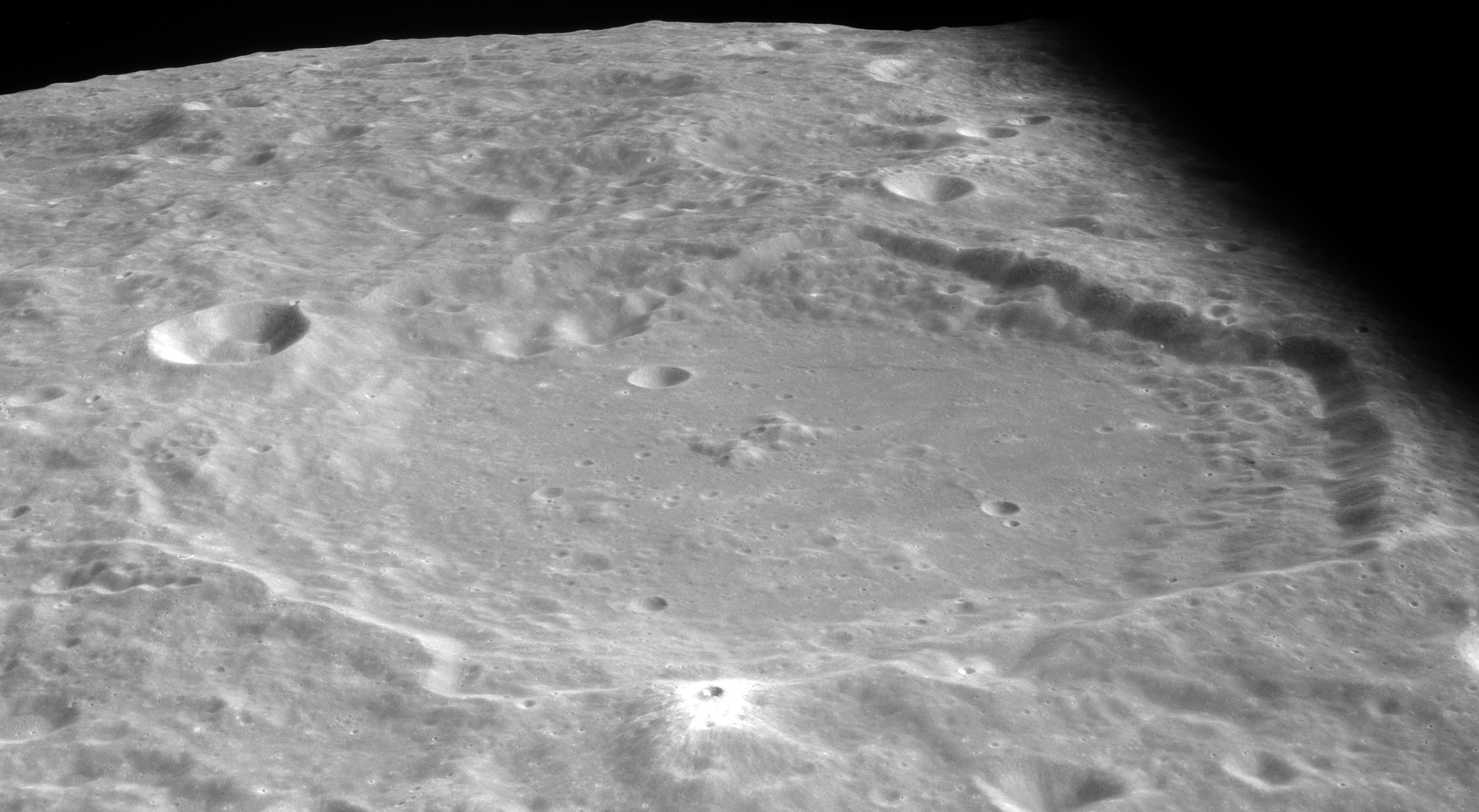 Oblique view of Chaplygin, on the far side of the moon. Facing south. The blur in upper right is the edge of the spacecraft window, out of focus.